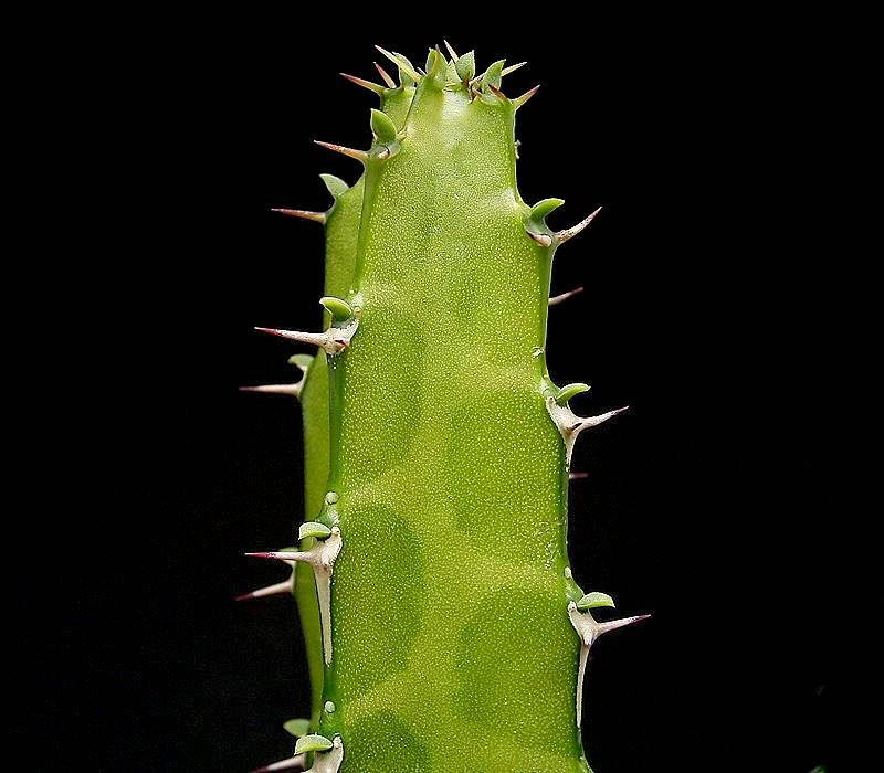 Euphorbia heterochroma